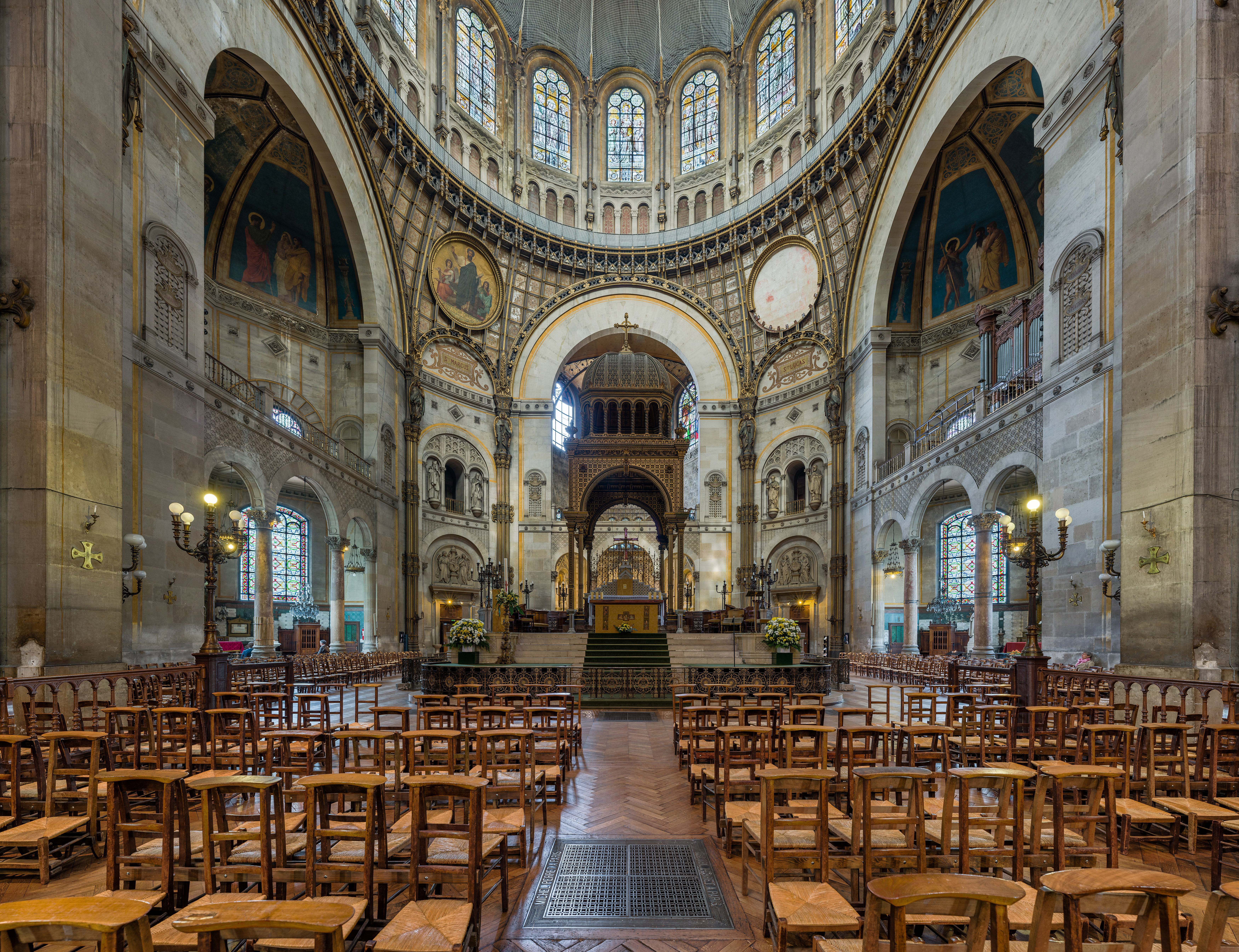 The altar and dome of Saint-Augustin in Paris, France.